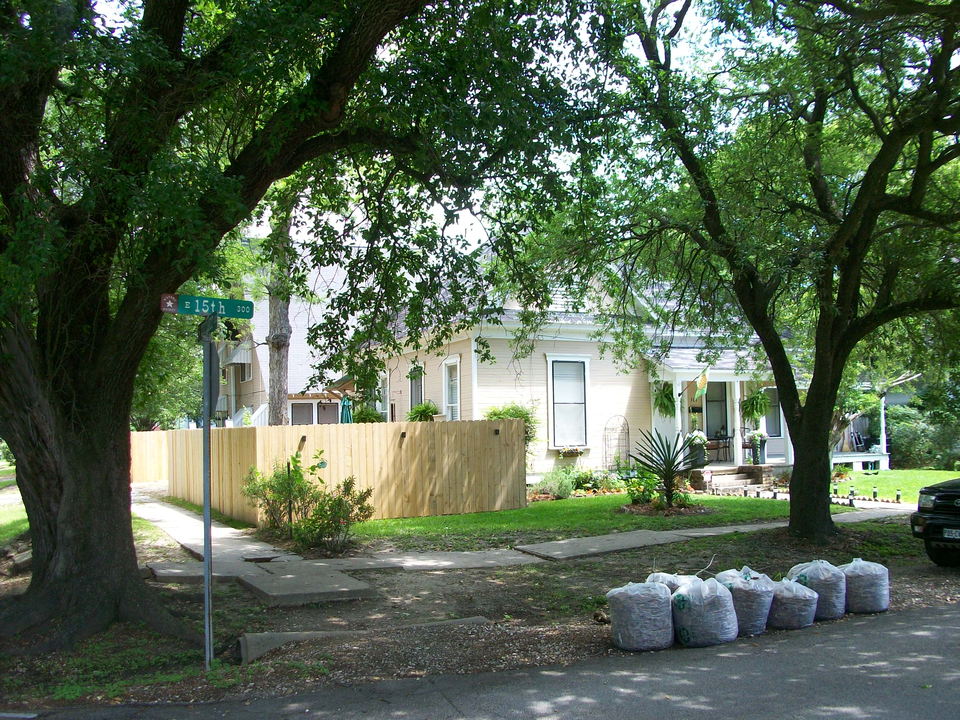 Front corner of the Gillette House